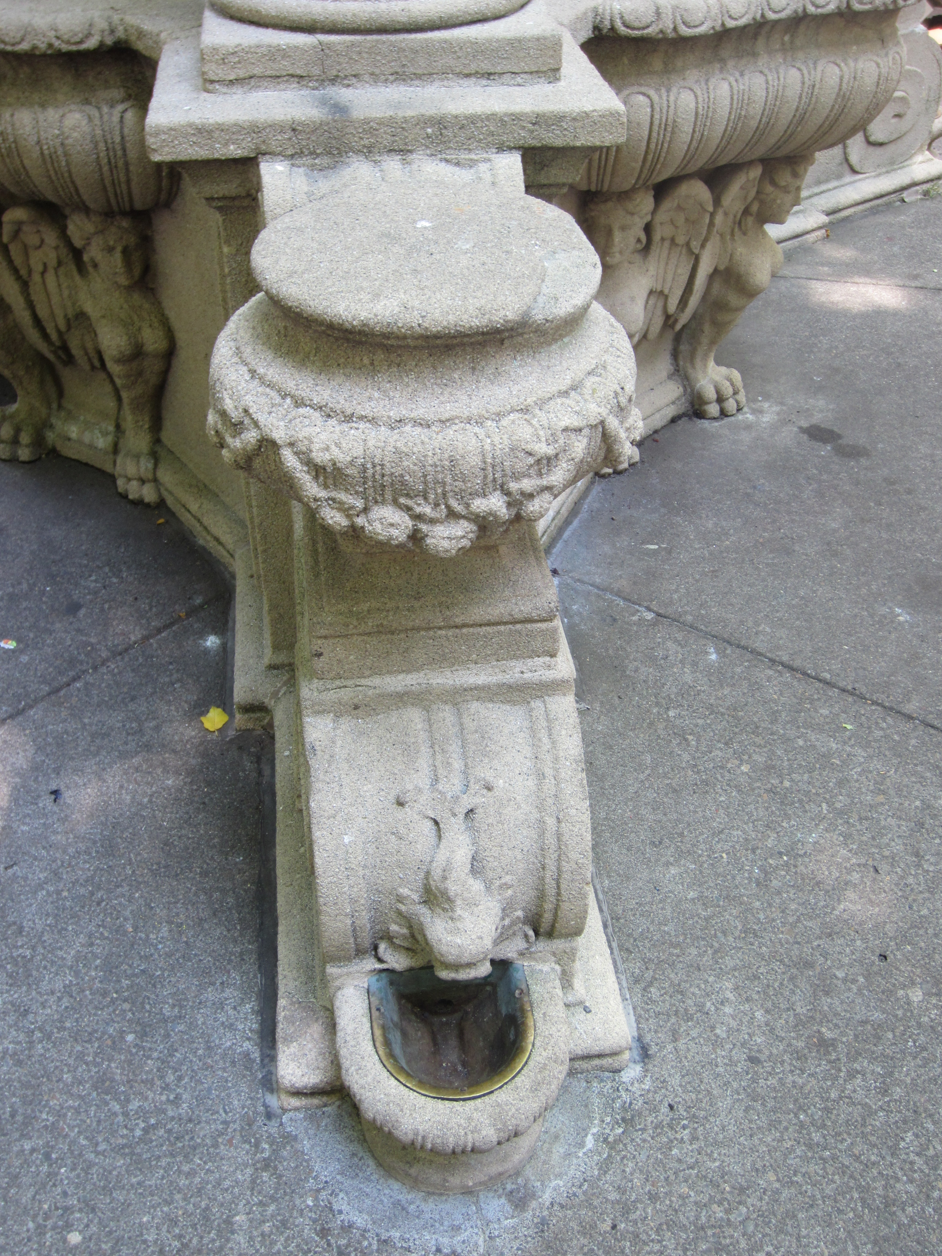 Shemanski Fountain in Portland, Oregon (2013)